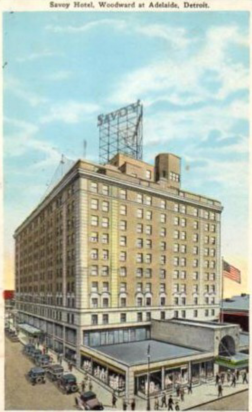 The Savoy Hotel in Detroit, Michigan. The 12-story, 800-room hotel opened in 1926. By 1929, it was renamed Hotel La Salle and then, in 1931, the Detroiter Hotel. In 1996, the building was demolished.